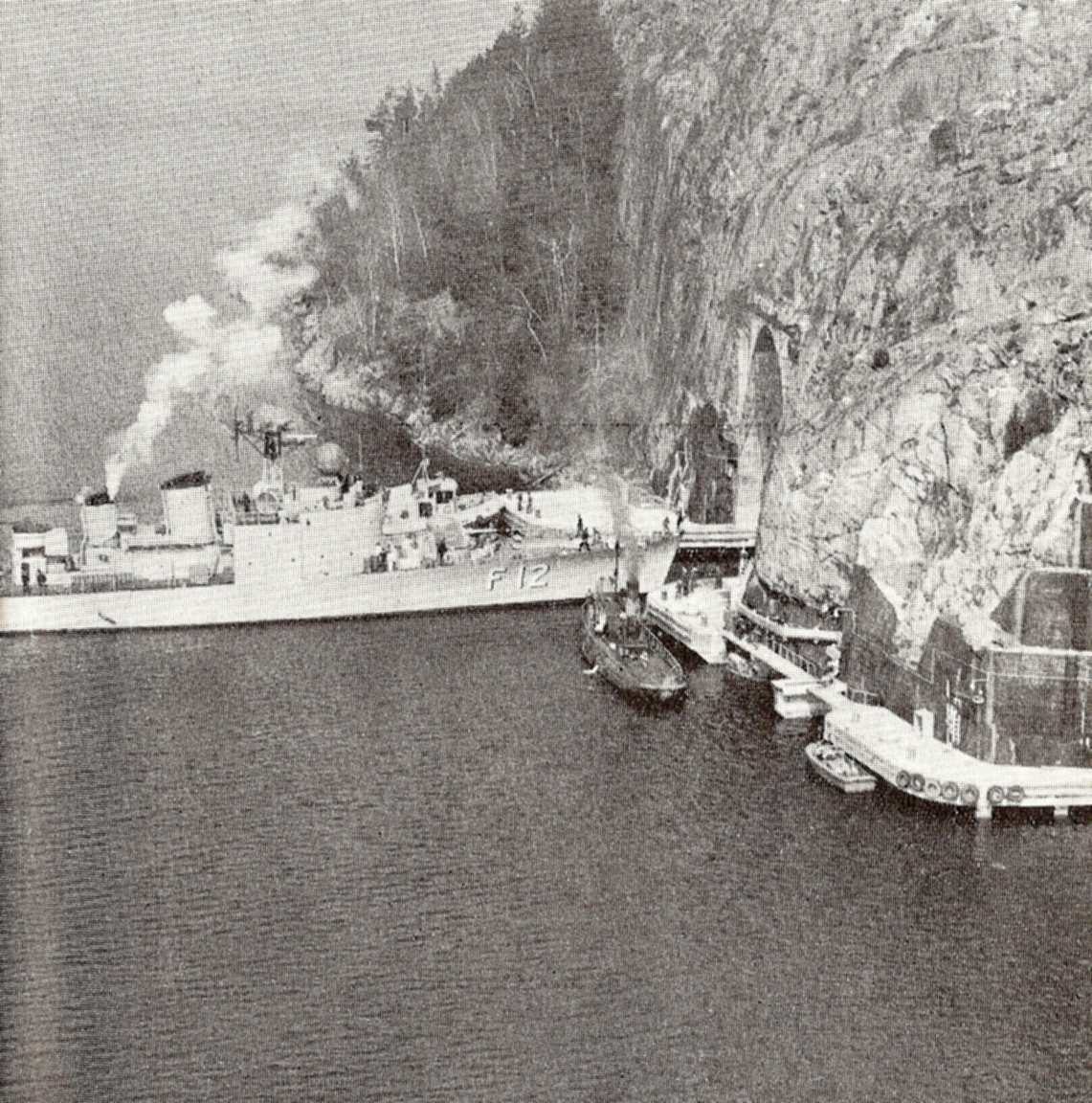 The swedish frigate (former destroyer) HMS Sundsvall on the way into a ship tunnel.